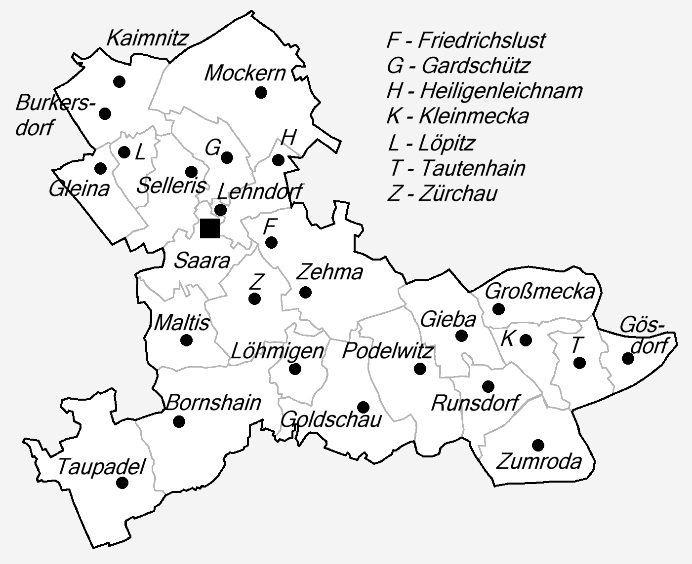 District-Maps of Saara in Thuringia.